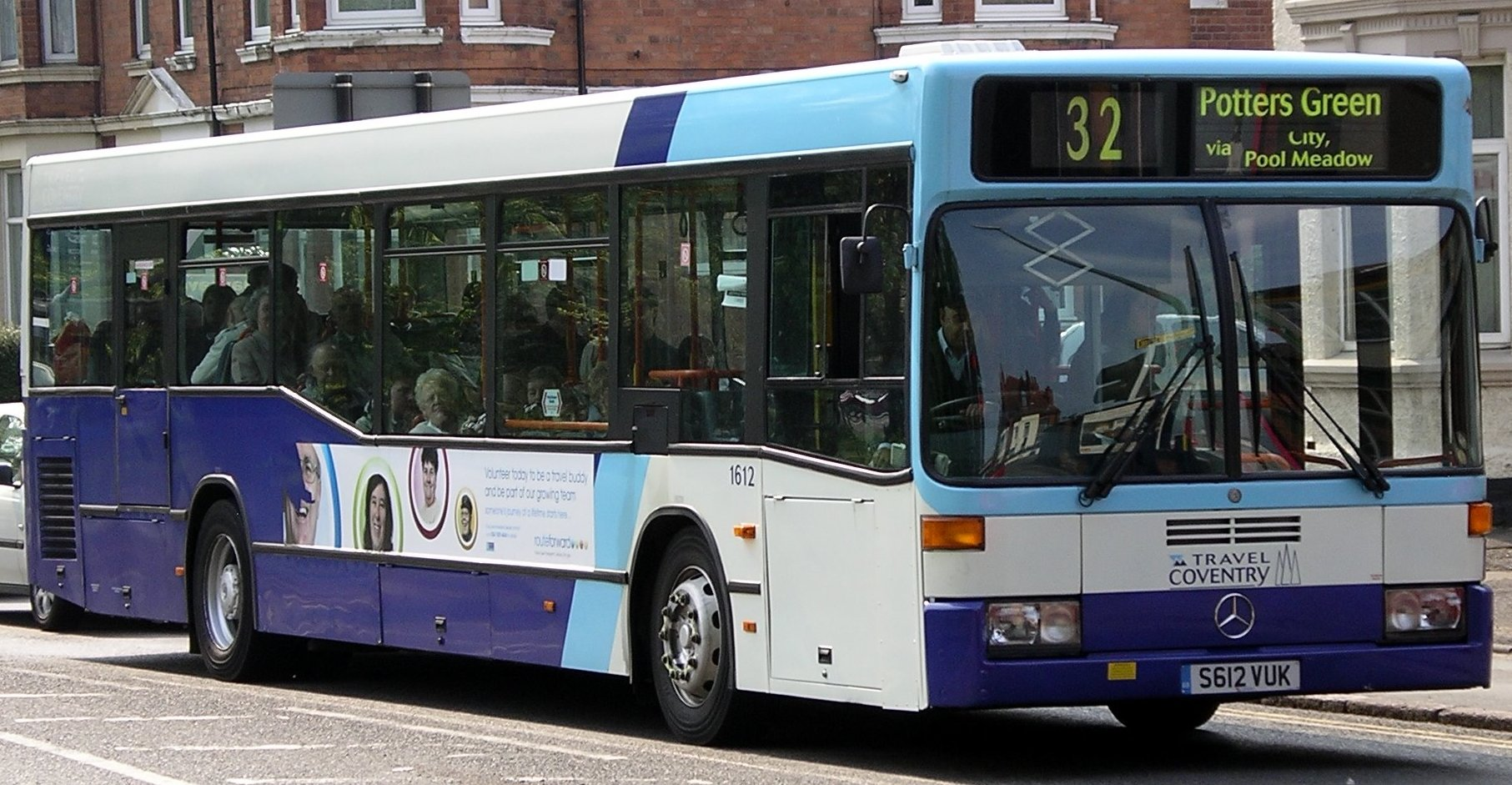 Travel Coventry 1612 (S612 VUK), a Mercedes-Benz O405N, in Coventry, on route 32.